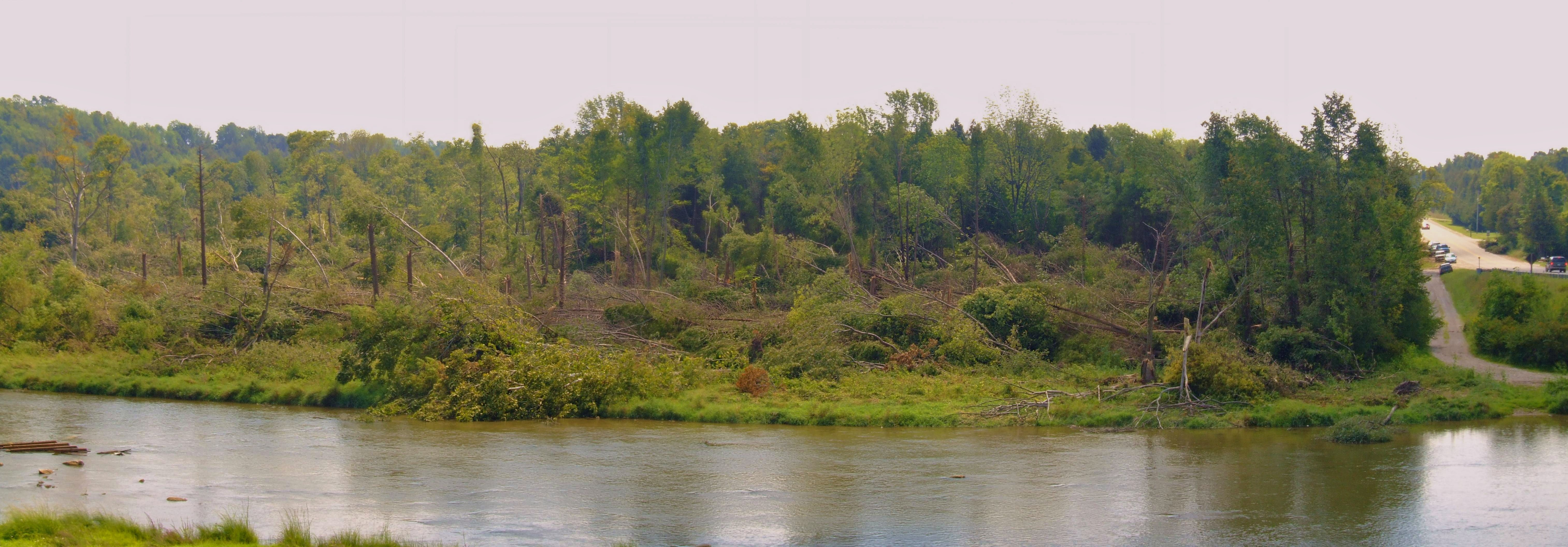 Damage to trees on the south side of the Maitland River in Benmiller, Ontario east of Benmiller Line on August 27, 2011 following the Goderich tornado. Note the structural wood debris in the river on the far left of the photograph.